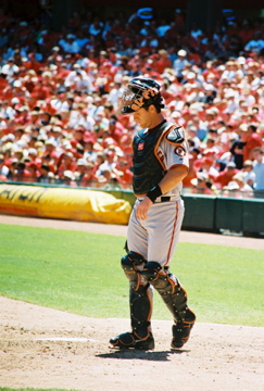 Photo of Mike Matheny.